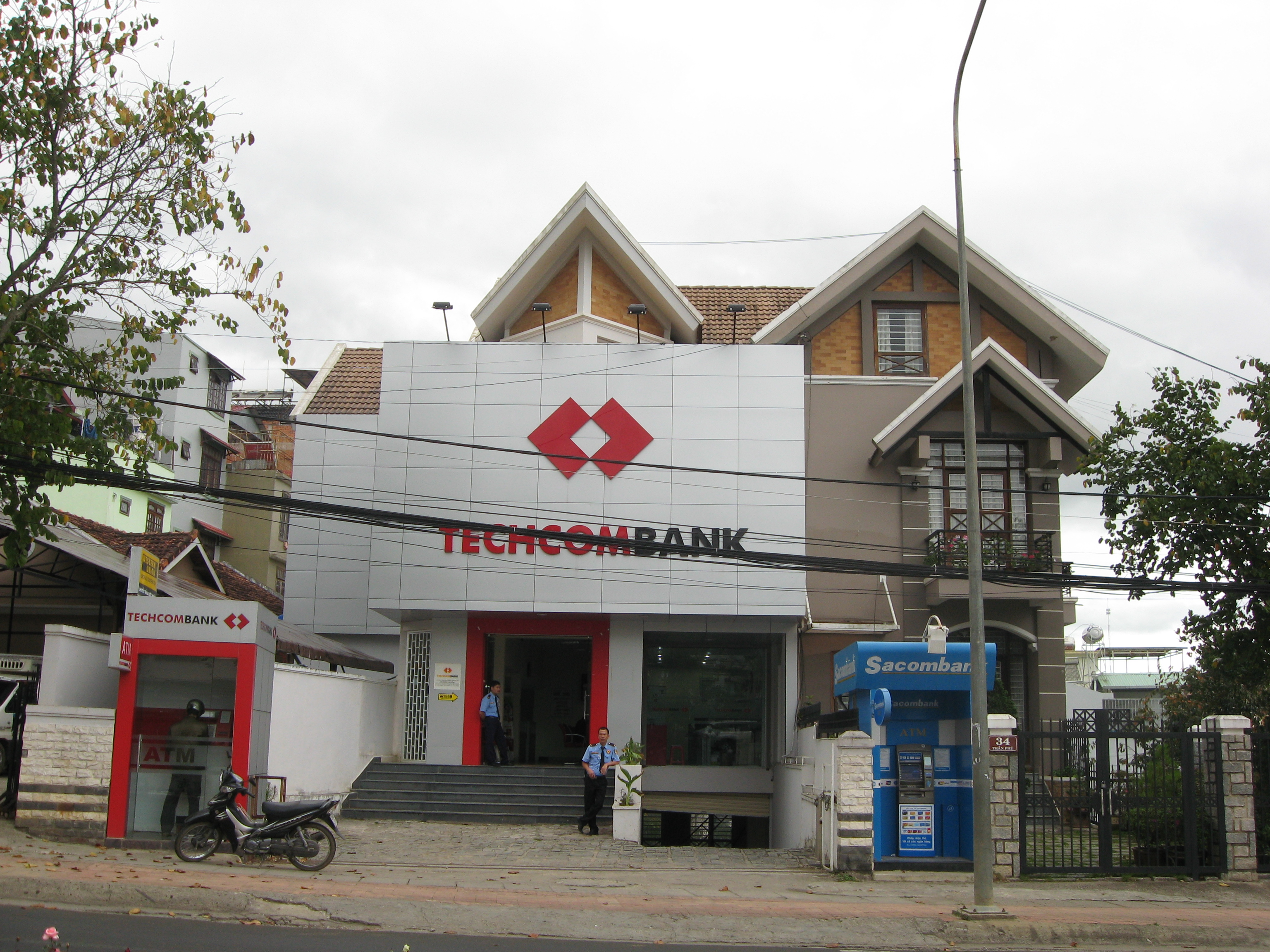 Techcombank Tran Phu, Da Lat